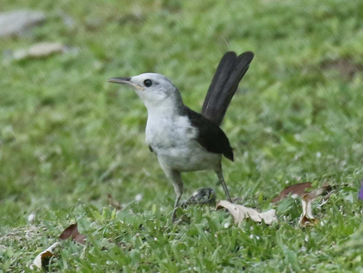 Canopy Camp - Darien, Panama